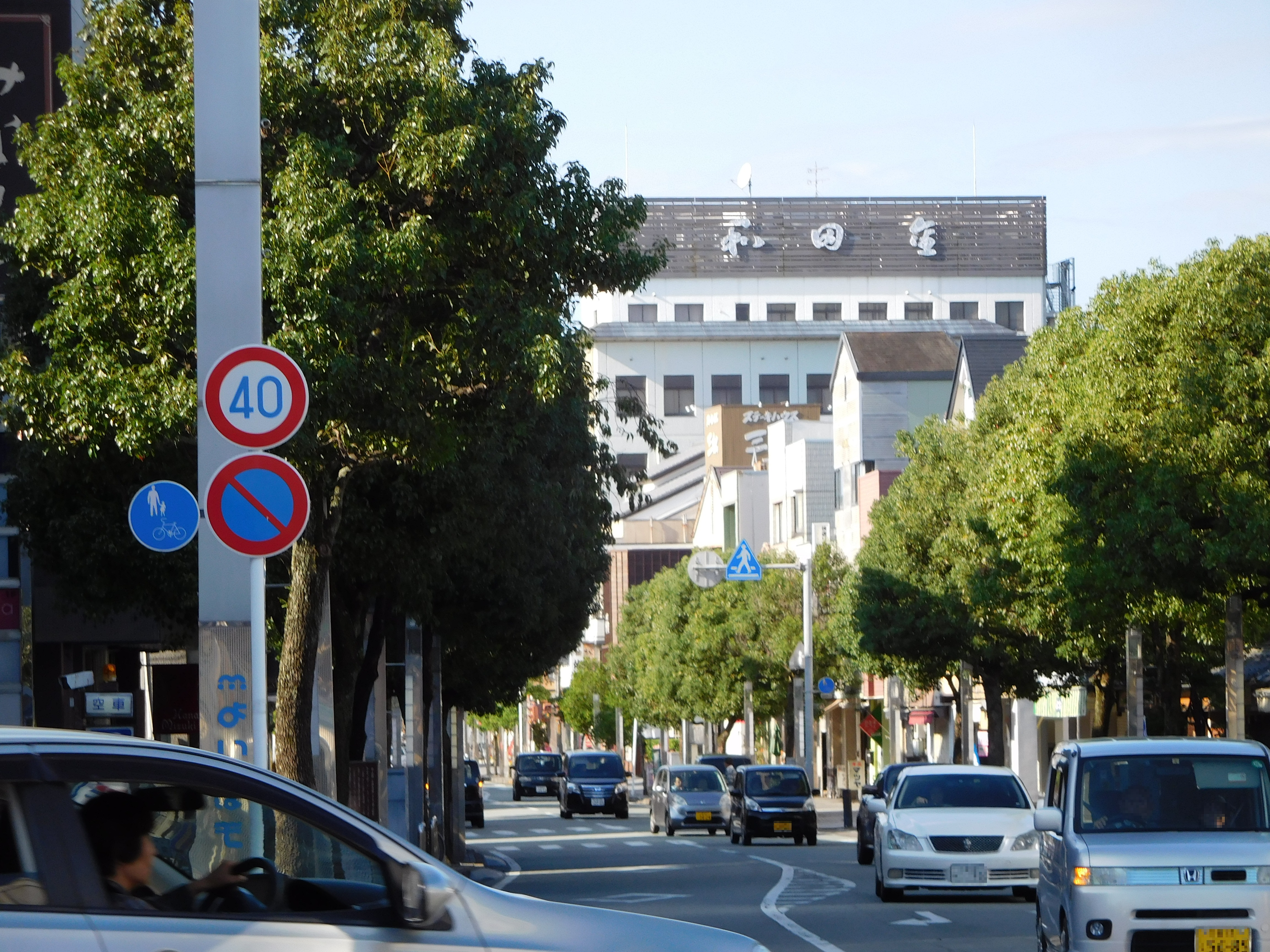 This is a landscape of Nakamachi, Matsusaka city, Mie prefecture, Japan.